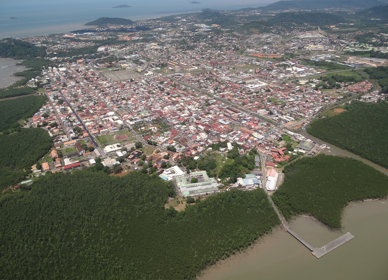 Aerial view of Cayenne from a Cessna 172